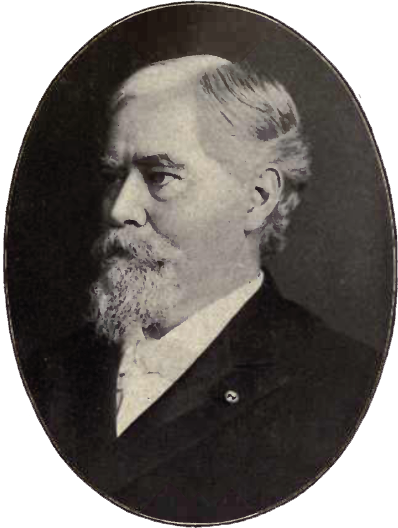 John C. Black (b. 1839), Chicago. U.S. Atty., N.D. Ill., 1895 to 1898.